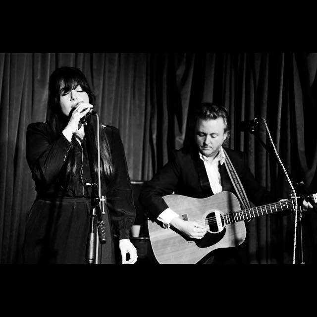 Jep and Dep Supporting Johnny Marr (the Smiths) 15th January 2014.